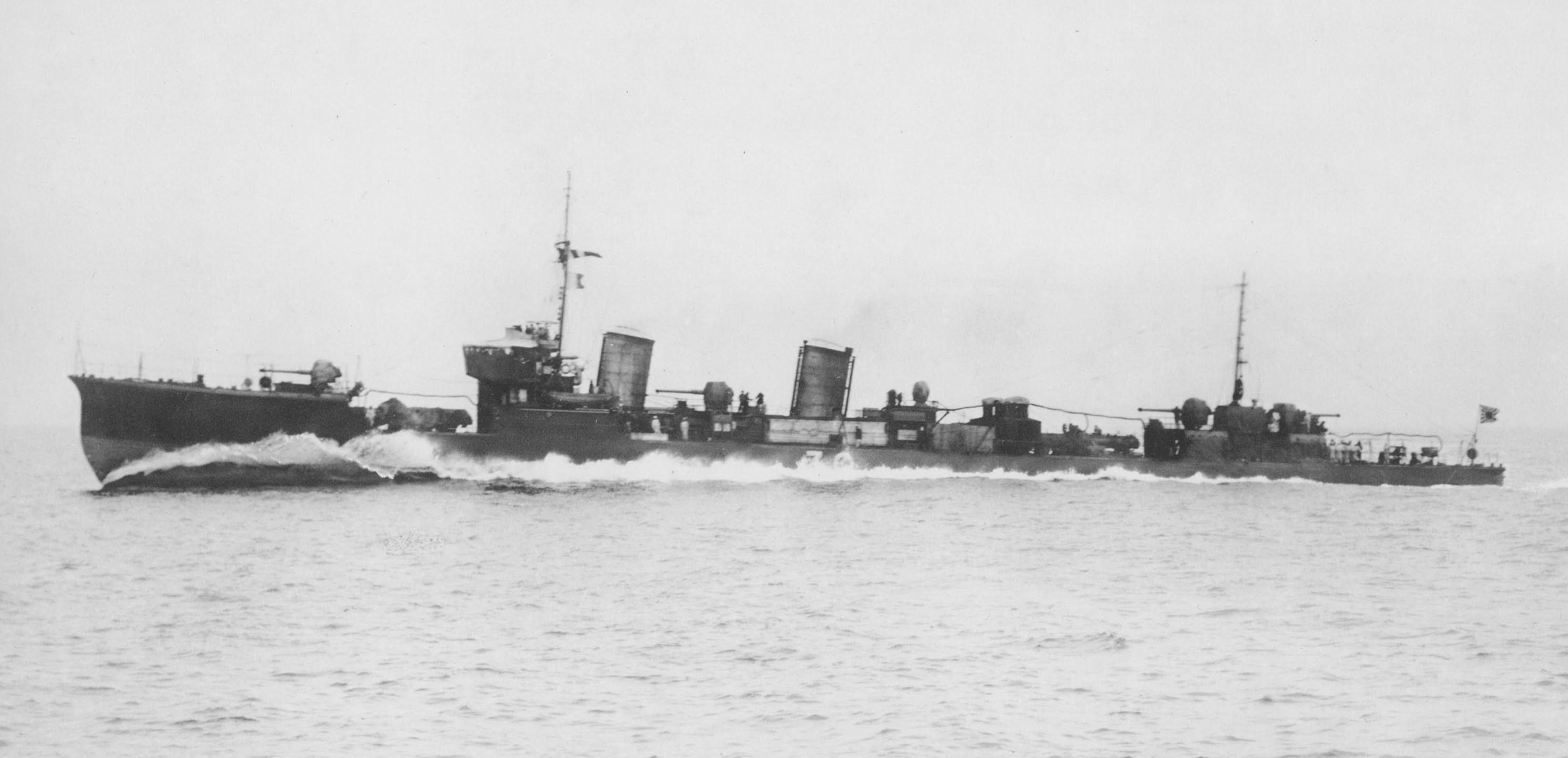 Imperial Japanese Navy destroyer Nagatsuki, the second Japanese warship to bear that name.